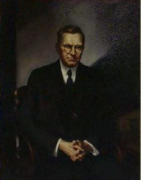 William N. Doak Upload Source - U.S. Department of Labor Biography evrik ( William N. Doak)